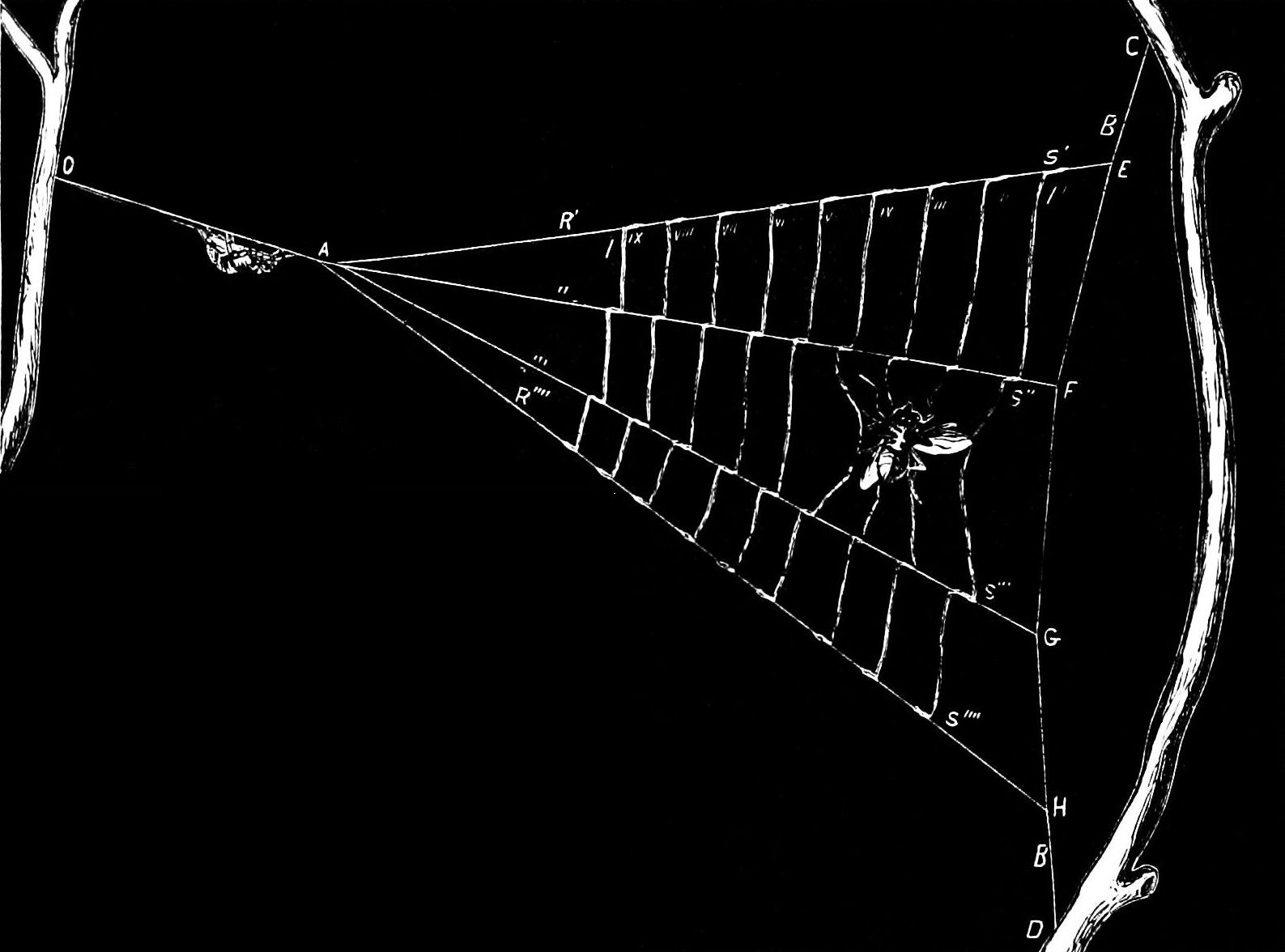 Net of the triangle spider (Hyptiotes americanus; =Hyptiotes cavatus), about one half the usual length. The spider shown of the natural size.